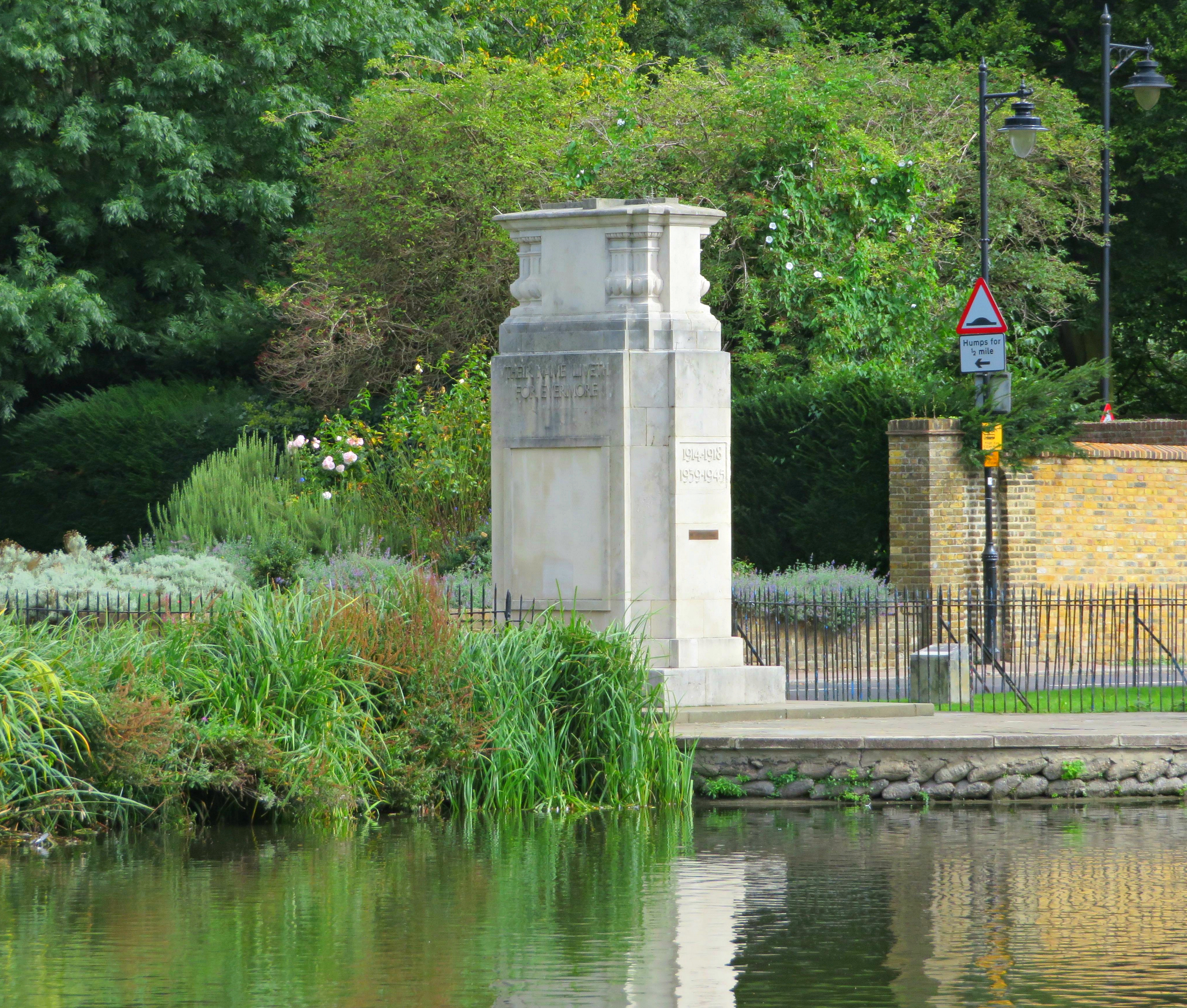 Carshalton War Memorial Wikidata has entry Q26672829 with data related to this item.